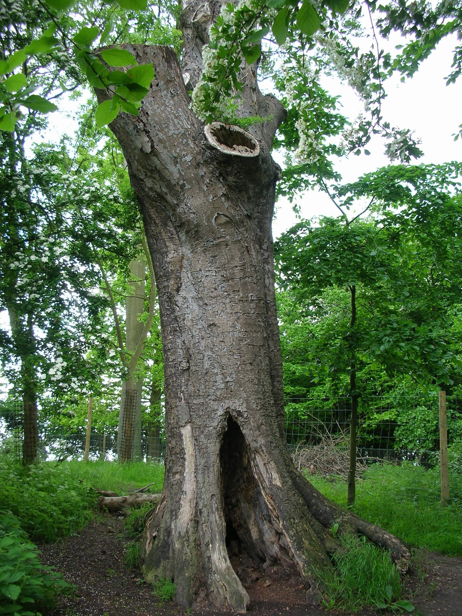 The Poem Tree, Wittenham Clumps, Oxfordshire. Photograph by Jonathan Bowen.